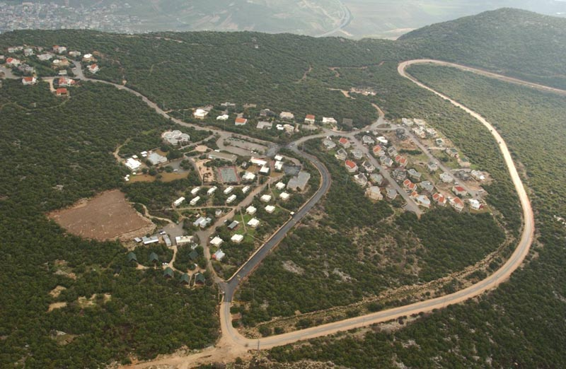 Har Halutz, 2005